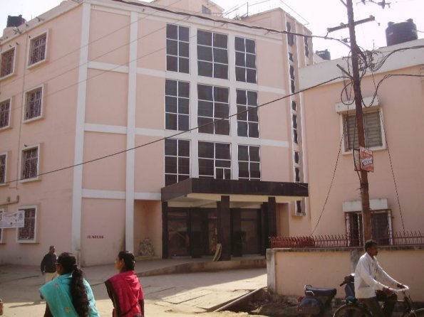 SCB Medical College and hospital